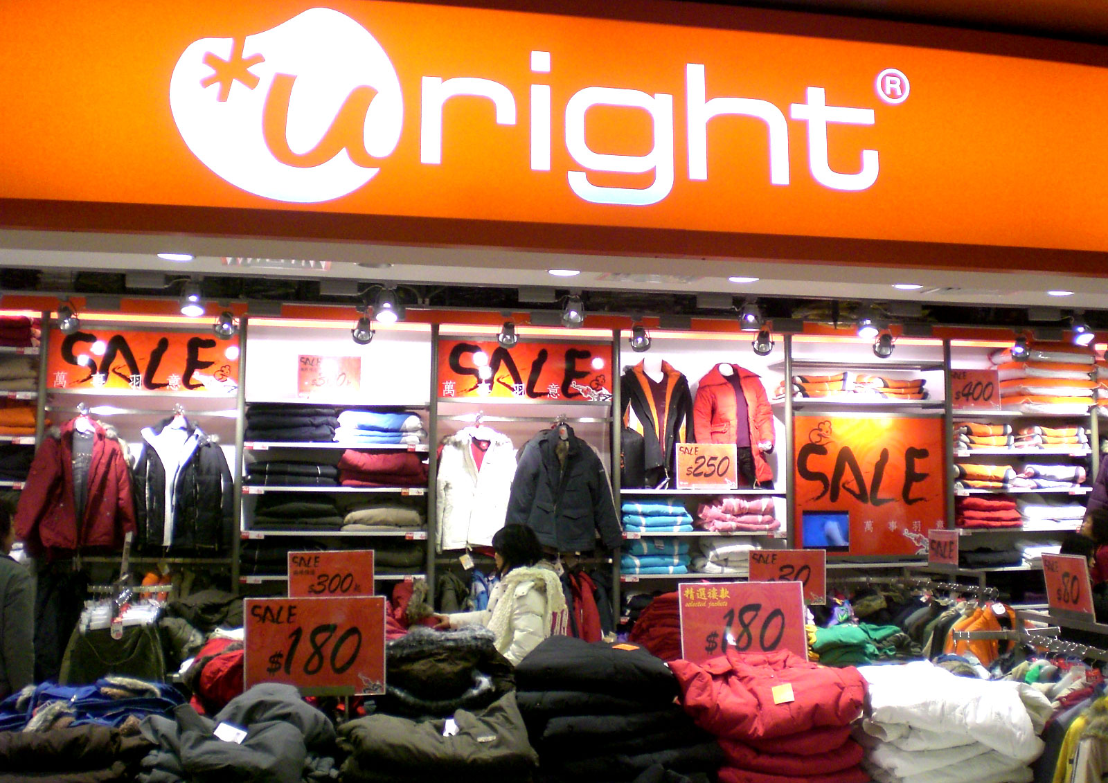 佑威國際於zh:信德中心分店